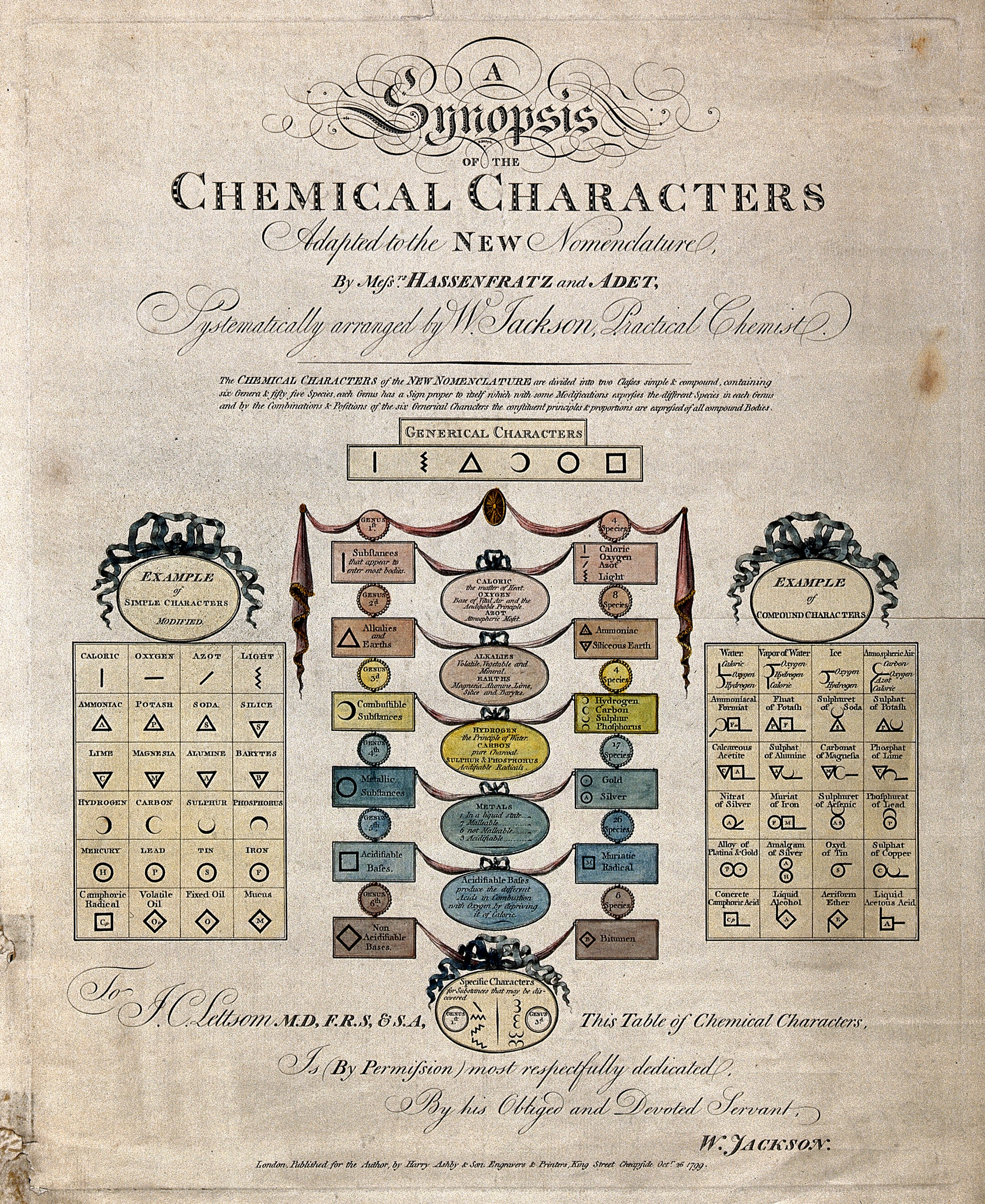 Chemistry: symbols of elements and substances. Coloured engraving by H. Ashby, 1799, after W. Jackson. Iconographic Collections Keywords: Henry Ashby; William Jackson; John Coakley Lettsom